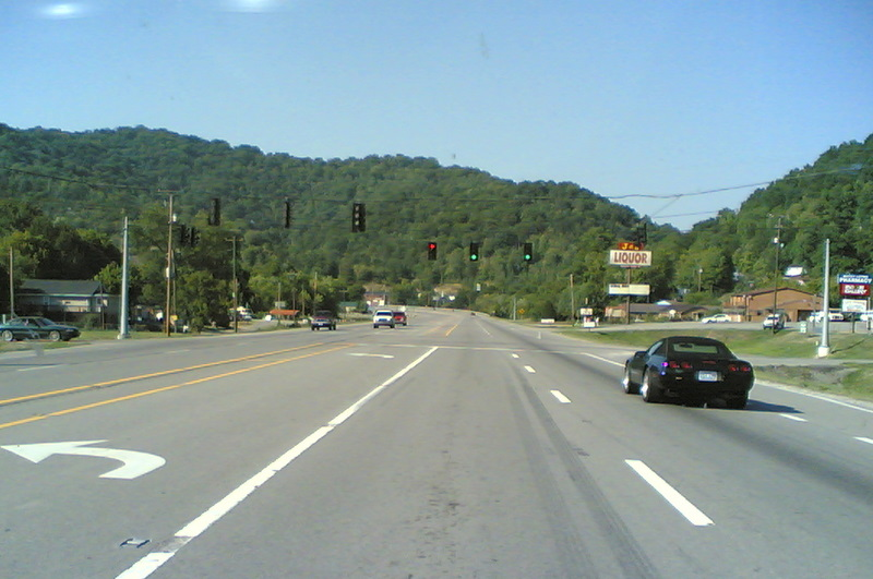 Betsy Lane, Floyd County, Kentucky, United States on United States Route 23